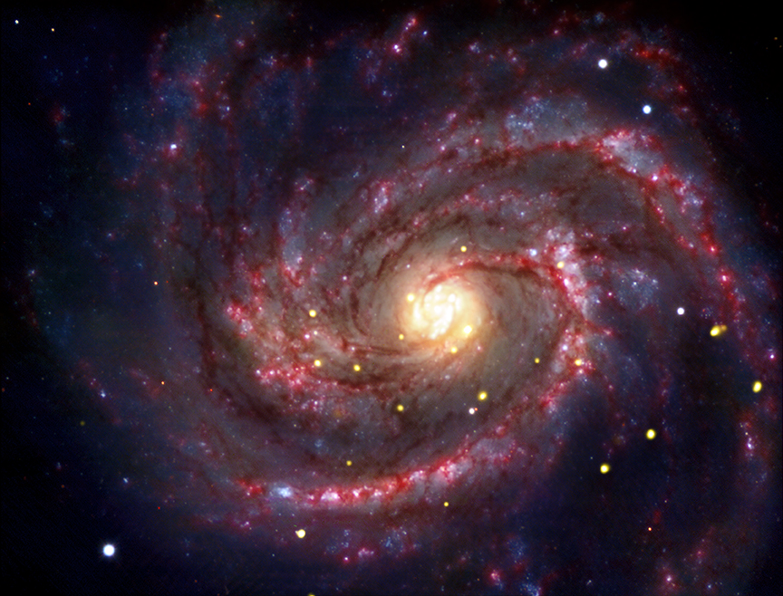 Location of SN 1979C in Messier 100